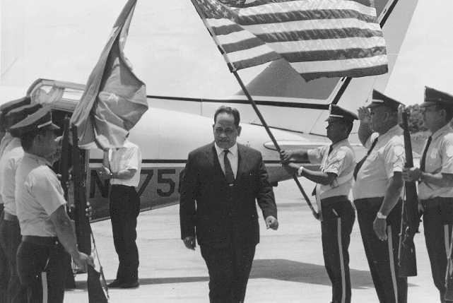 Visit of Nauru president Hammer DeRoburt in Saipan (CNMI)